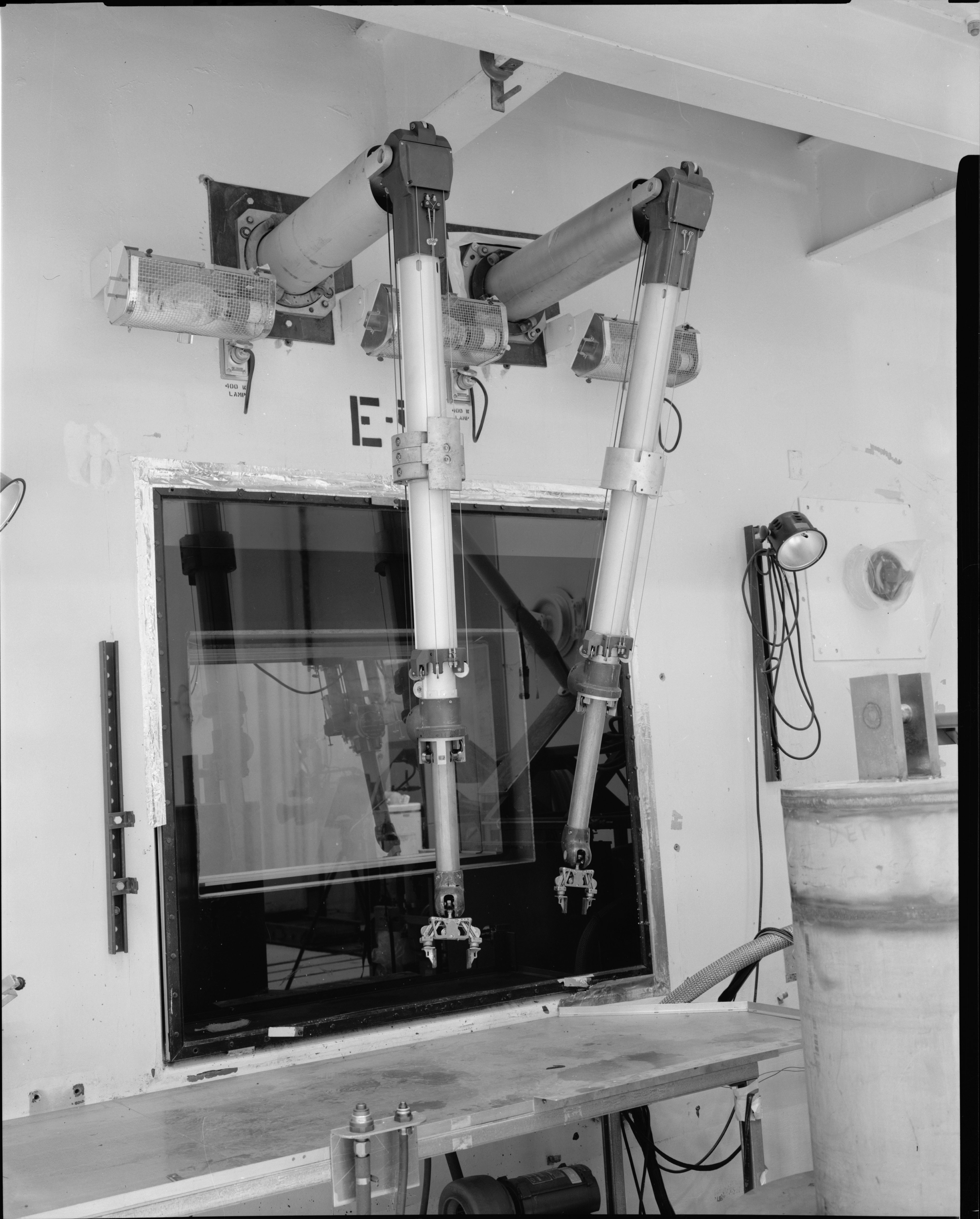 Nevada Test Site - Area 25 - Engine Maintenance Assembly & Disassembly Facility. View of E-5 work station and manipulators arms within the hot bay. Facility built in 1962-65; abandoned ca. 1973.